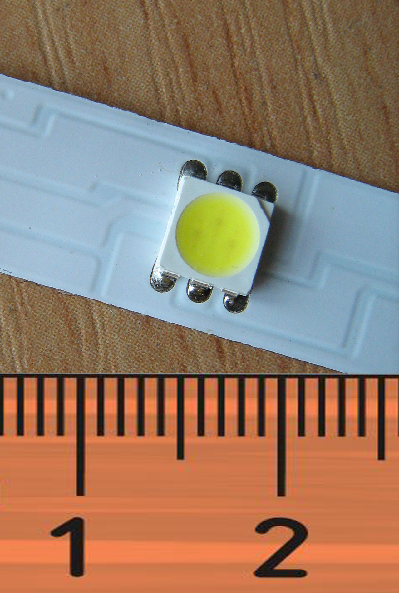 LED SMD5050